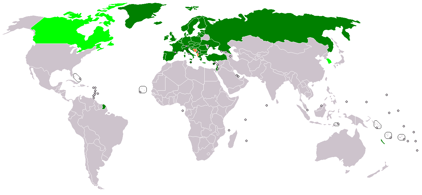 EUREKA members and associates as of 2013-05-24